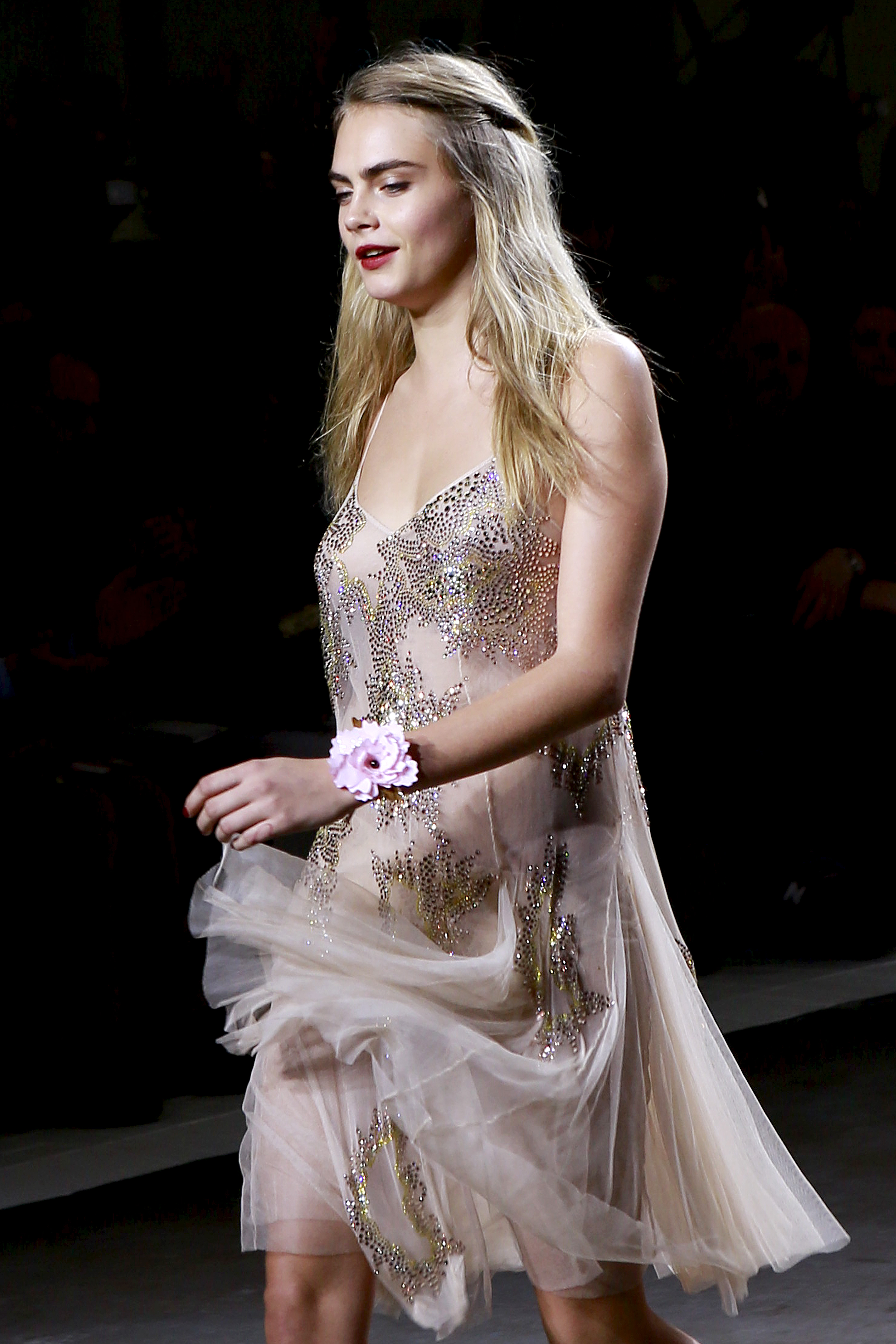 model catwalk